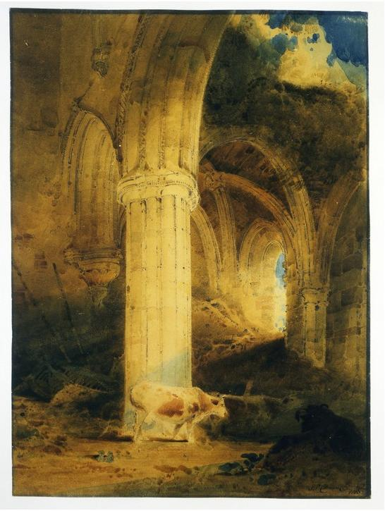 Object Type - In the later 18th century, English landscape watercolours were beginning to be appreciated throughout Europe and in the 19th century they were eagerly collected. Painting in watercolours was a skill that many middle-class amateurs took up, often studying under professional drawing masters. People - Between 1800 and 1805 Cotman embarked on a number of sketching tours that were to have a dramatic effect on his artistic development. In 1800 and again in 1802 he travelled to Wales in search of the Picturesque, where he saw the castles and wild mountains that were to fire his imagination for the rest of his life. On his second trip Cotman was probably accompanied by Paul Sandby Munn (1773-1845), who was also with him during the early stages of his first trip to Yorkshire in 1803. In 1806 Cotman set up as a drawing master in his native Norwich. There Cotman was able to disseminate his methods of sensitive drawing and innovative watercolour technique, providing his pupils with a large library of paintings and drawings for them to copy. Subject Depicted - The influence of Yorkshire on Cotman was as significant as it was to Thomas Girtin (1775-1802) and J.M.W. Turner (1775-1851), both of whom were indefatigable travelling watercolorists in their youth. Yorkshire's ruined abbeys, which include Fountains, Rievaulx, Byland, Whitby, Bolton and Jervaulx, were a frequent source of inspiration for British painters throughout the 19th century.